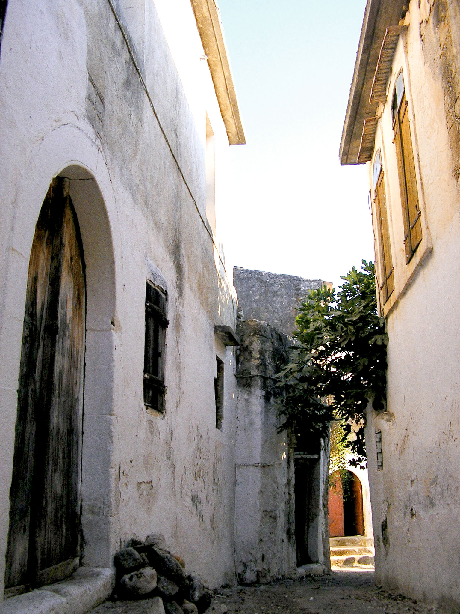 Villa of Loutra narrow medieval alleys